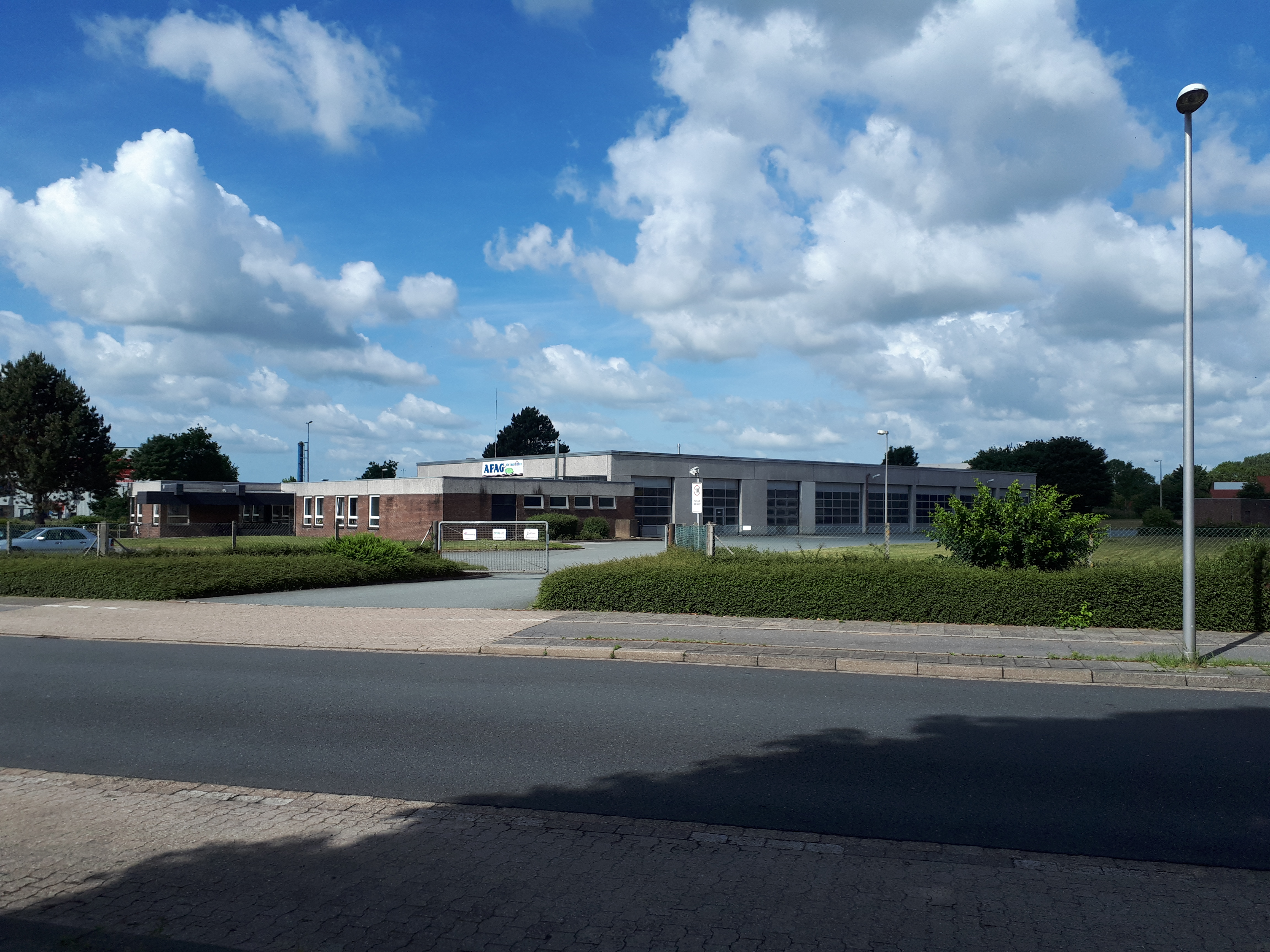 Service buliding of the AFAG (public transport) in Flensburg, Germany